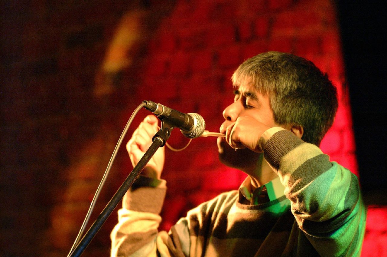 Leo Tadagawa plays the Mukkuri at Ancient Trance 2007 (